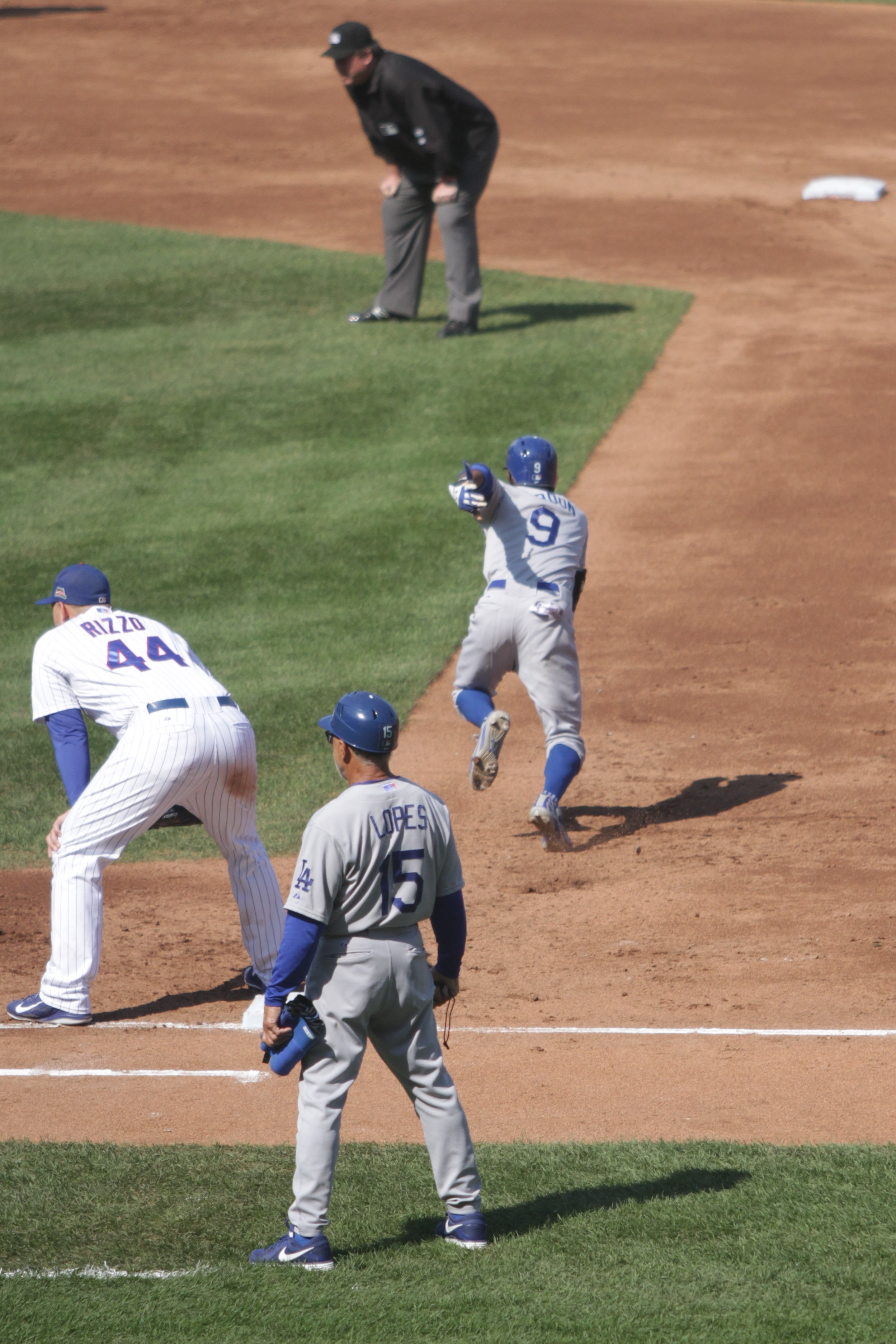 Dee Gordon gets a stolen base for the 2014 Los Angeles Dodgers against the 2014 Chicago Cubs at Wrigley Field. Anthony Rizzo at first and Davey Lopes as first base coach.